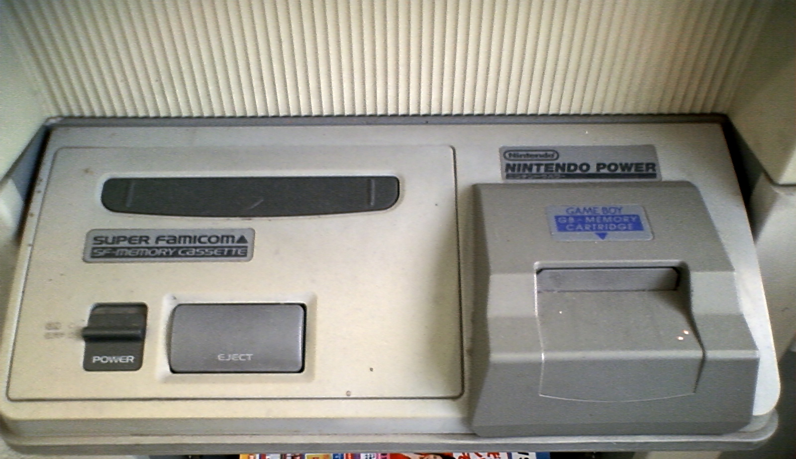 The flash writer at a Nintendo Power kiosk in a convenience store. Owners of Nintendo Power flash cartridges could use the writer to add games to Nintendo Power cartridges.